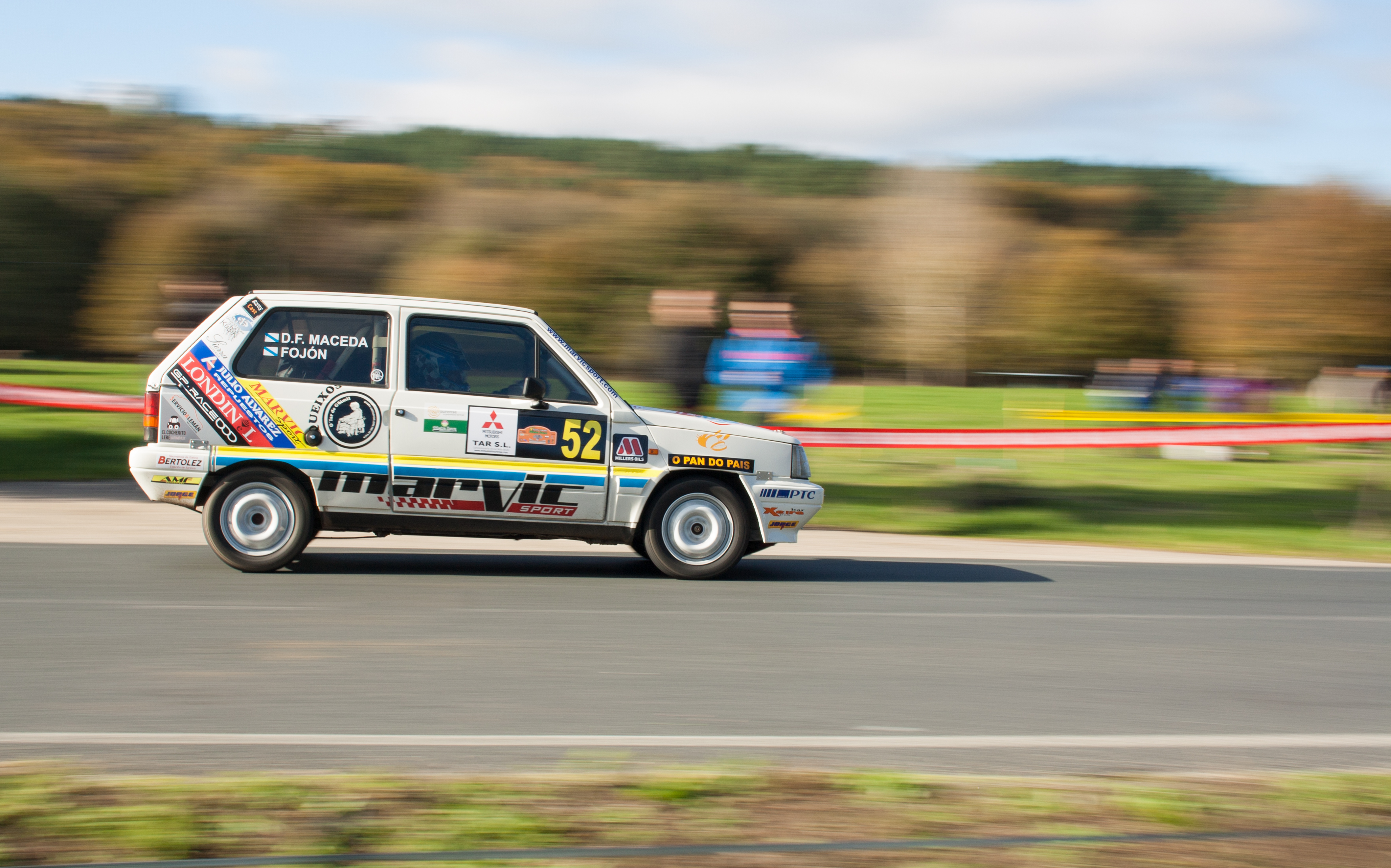 Fojón and Maceda, champions of "I Iniciación Cup Stark Box" in the Riberira Sacra Rally, the Galician Rally Championship. Section of Maceda-Baldrei, in Maceda